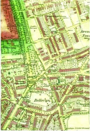 This is an image of a 1865 map by the Ordnance Survey, under the directorship of Henry James (Ordnance Survey)(1803-1877) of the city of Southampton. In it you can see in the lower left hand quarter the buildings that made up the Ordnance Survey Offices of this period including the building known as the glasshouse, home of the photography department. This is the oddly shaped building on the left hand side about midway up, which looks blue due the map makers attempt to portray glass This copy is courtesy of the Southampton Archive Services who hold the original